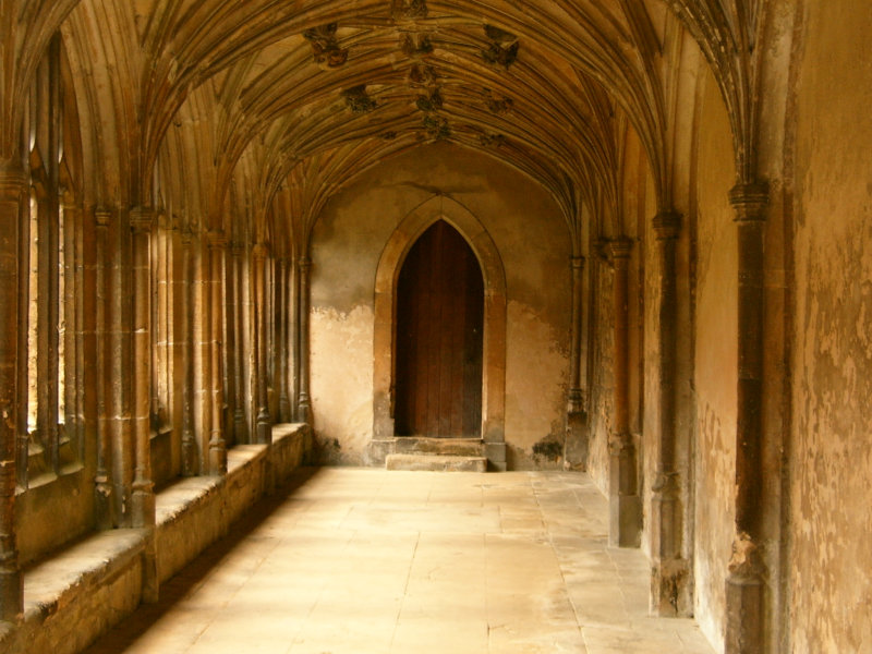 Cloister at Lacock Abbey